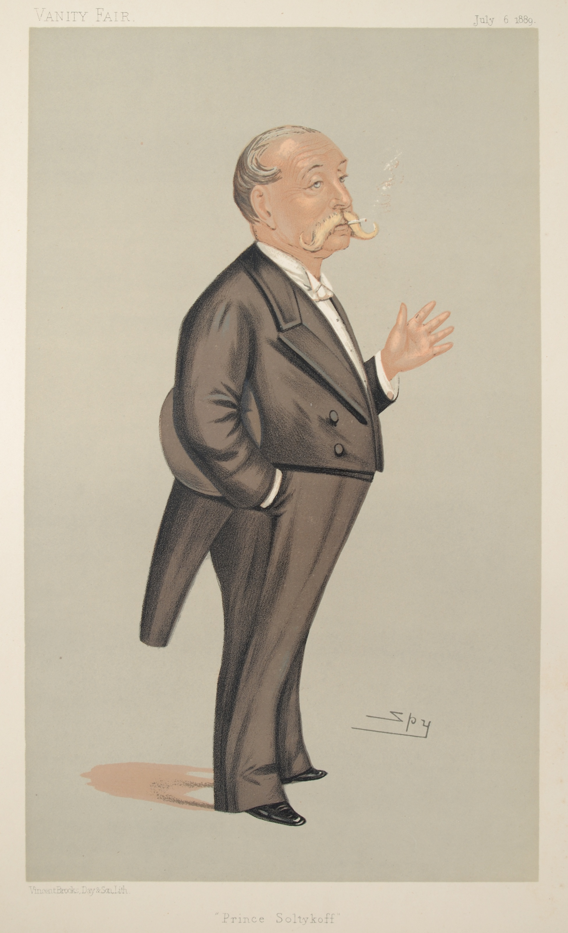 Men of the Day No. 430: Caricature of H.S.H. Prince Demtrey Soltykoff (князь Дмитрий Петрович Салтыков; †1923). See biography at [1] Caption read "Prince Soltykoff".